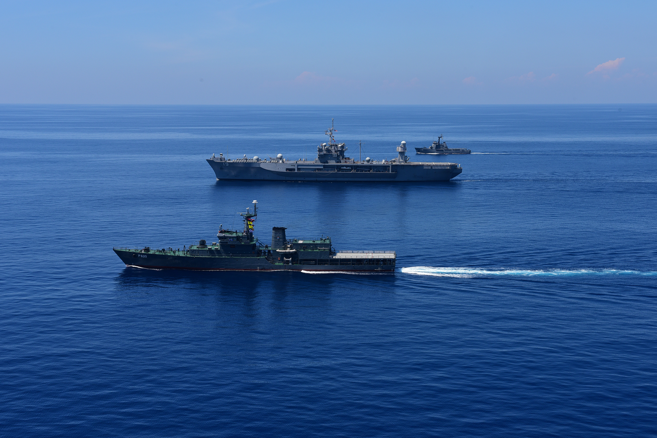 INDIAN OCEAN (March 31, 2016) The U.S. 7th Fleet flagship USS Blue Ridge (LCC 19) maneuvers into formation with the Sri Lankan navy medium endurance cutter Sayura (620, and the offshore patrol vessel Samudura (621) while departing Colombo, Sri Lanka. Blue Ridge is on patrol in the U.S. 7th Fleet area of operations strengthening and fostering relationships within the Indo-Asia-Pacific. (U.S. Navy photo by Mass Communication Specialist 3rd Class Jordan KirkJohnson/Released) 160331-N-NM917-502 Join the conversation: navylive.dodlive.mil